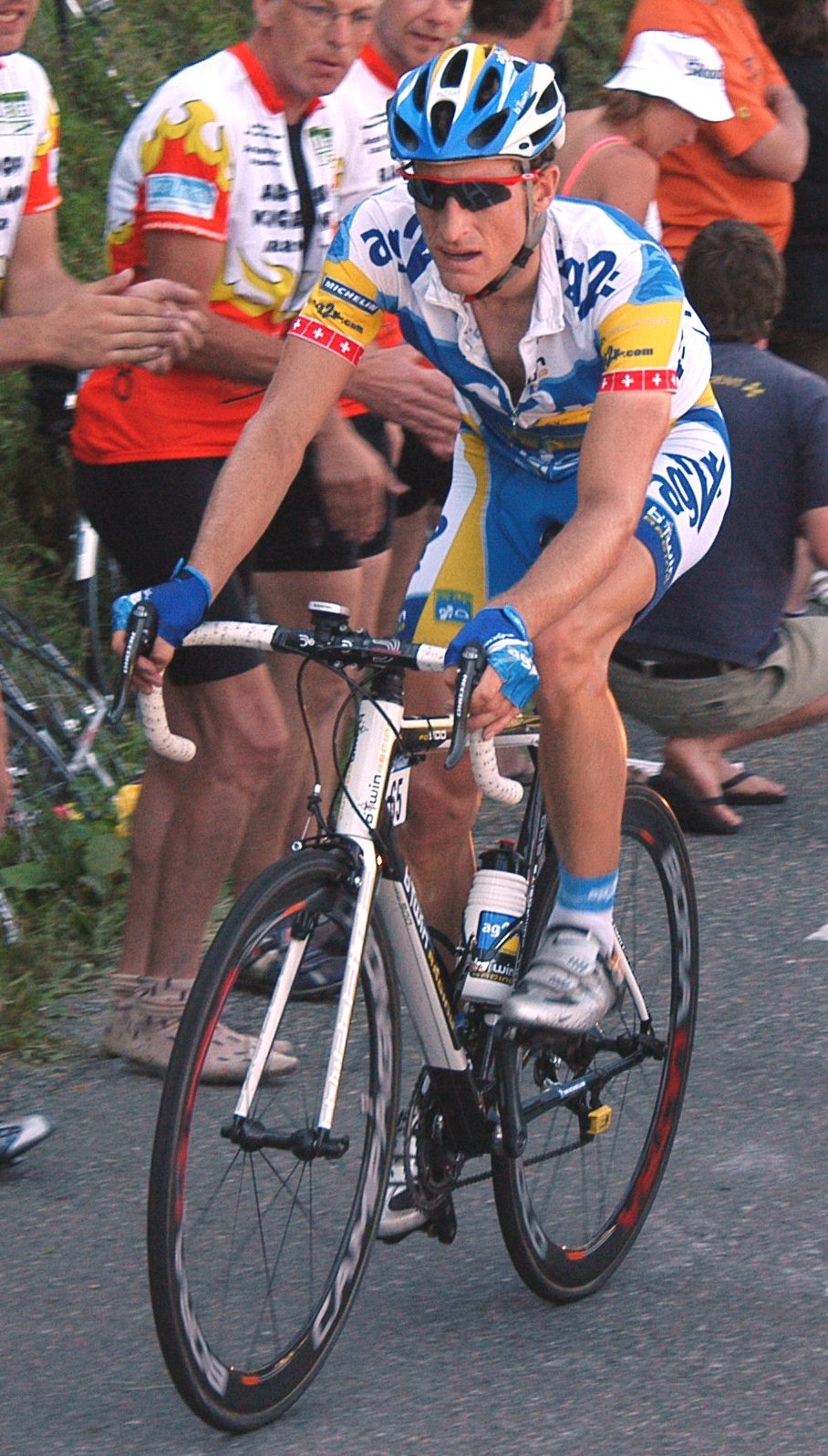 Elmiger at stage 7 of the Tour de France 2007 on the Col de la Colombière.